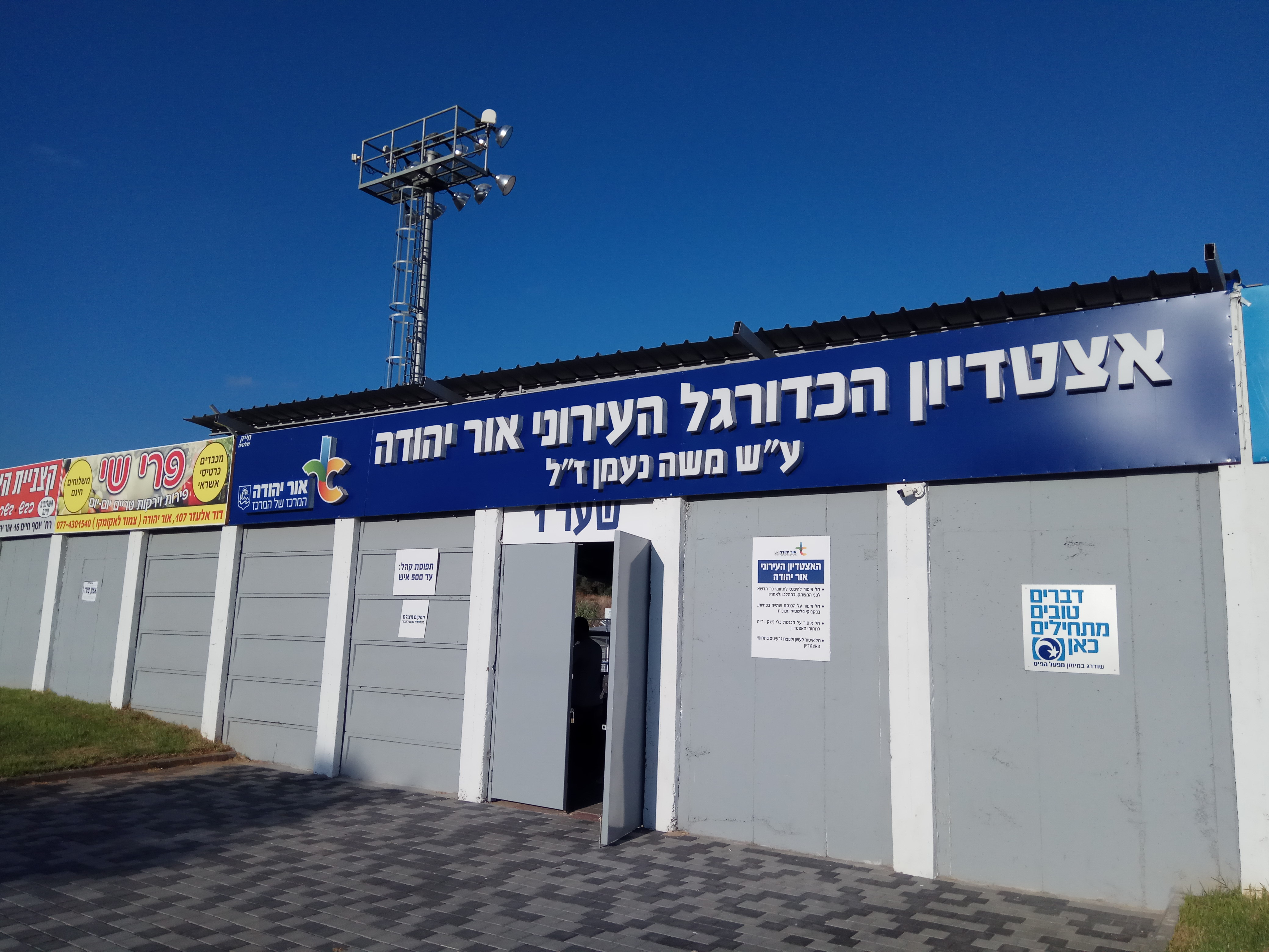 Naaman stadium in or yehuda